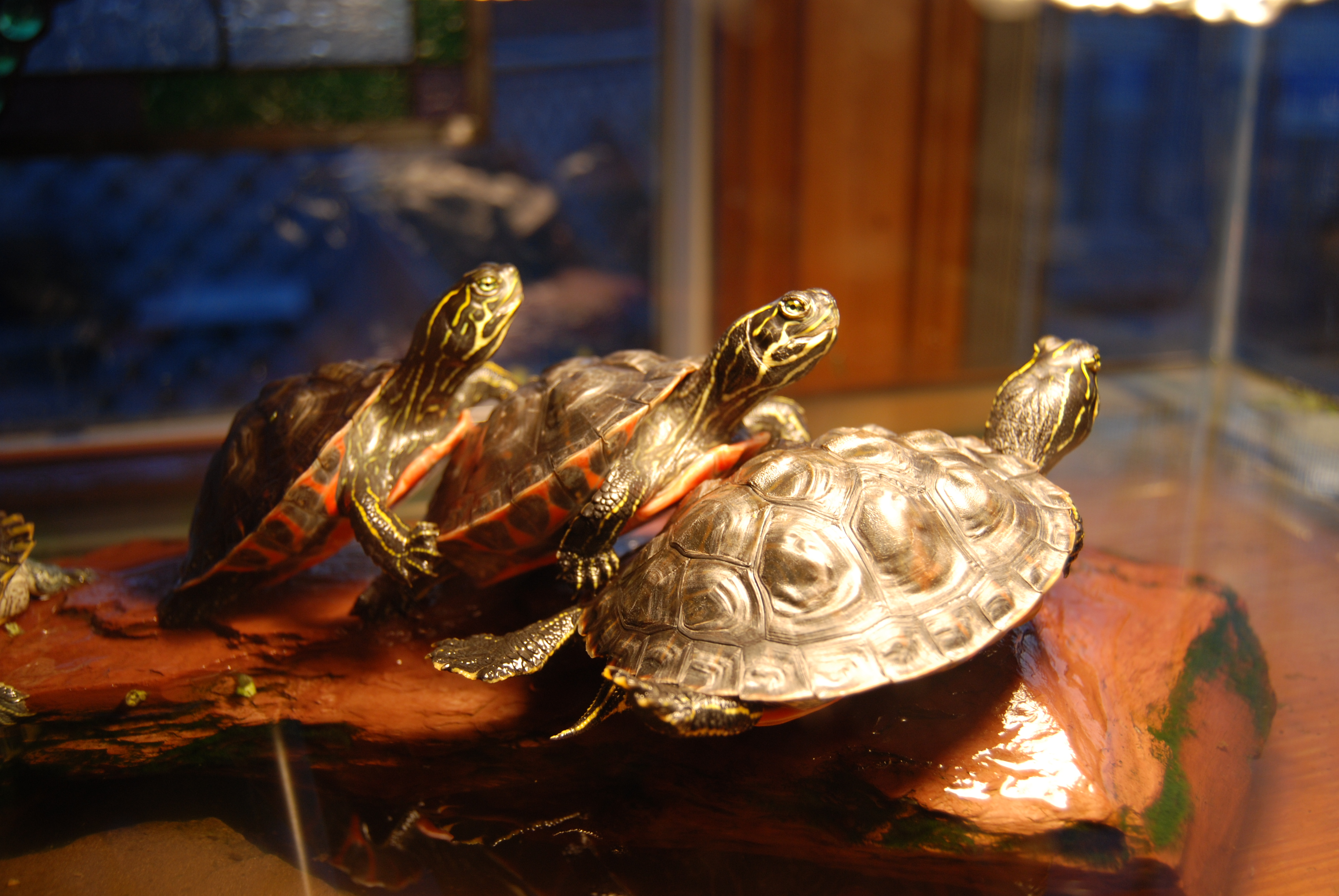 Basking Red Bellied Turtles raised from eggs in incubator